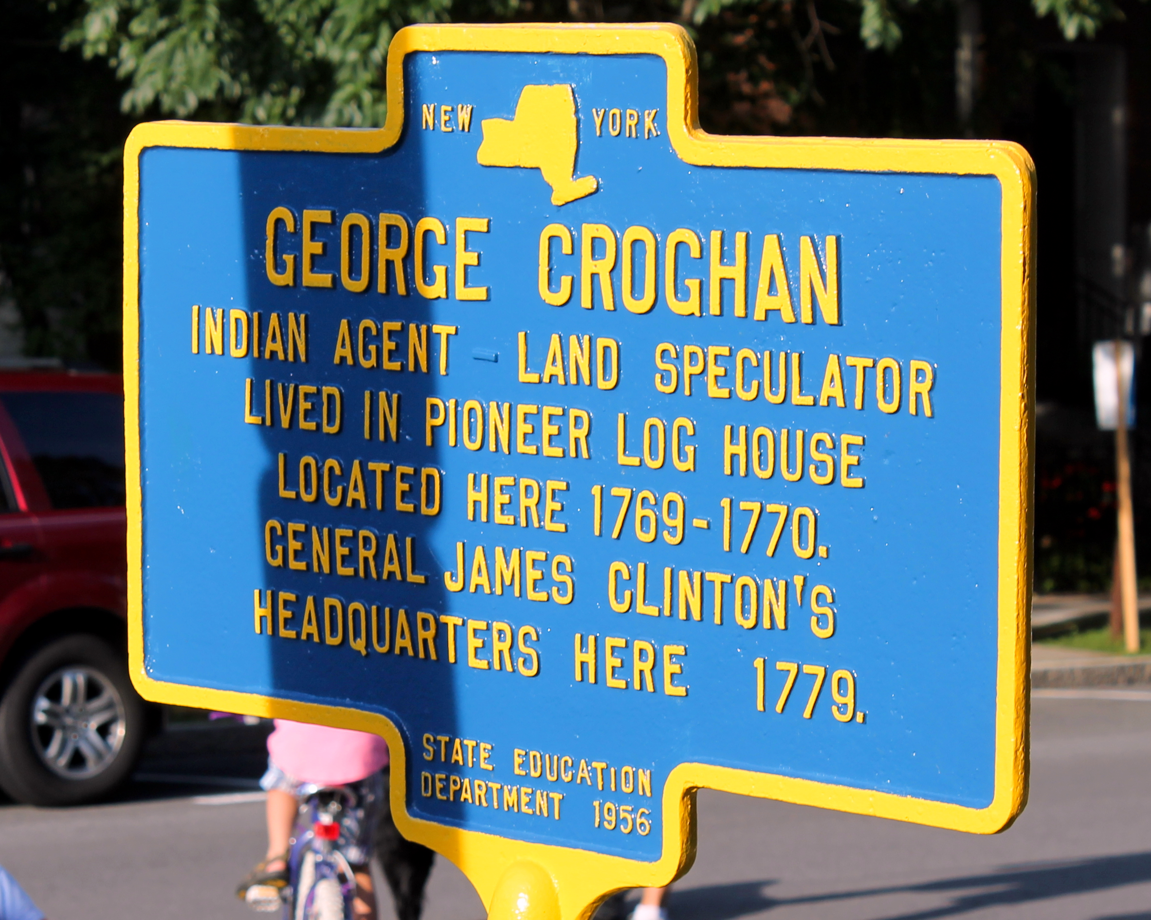 Historical marker in Cooperstown, New York, honoring speculator George Croghan.